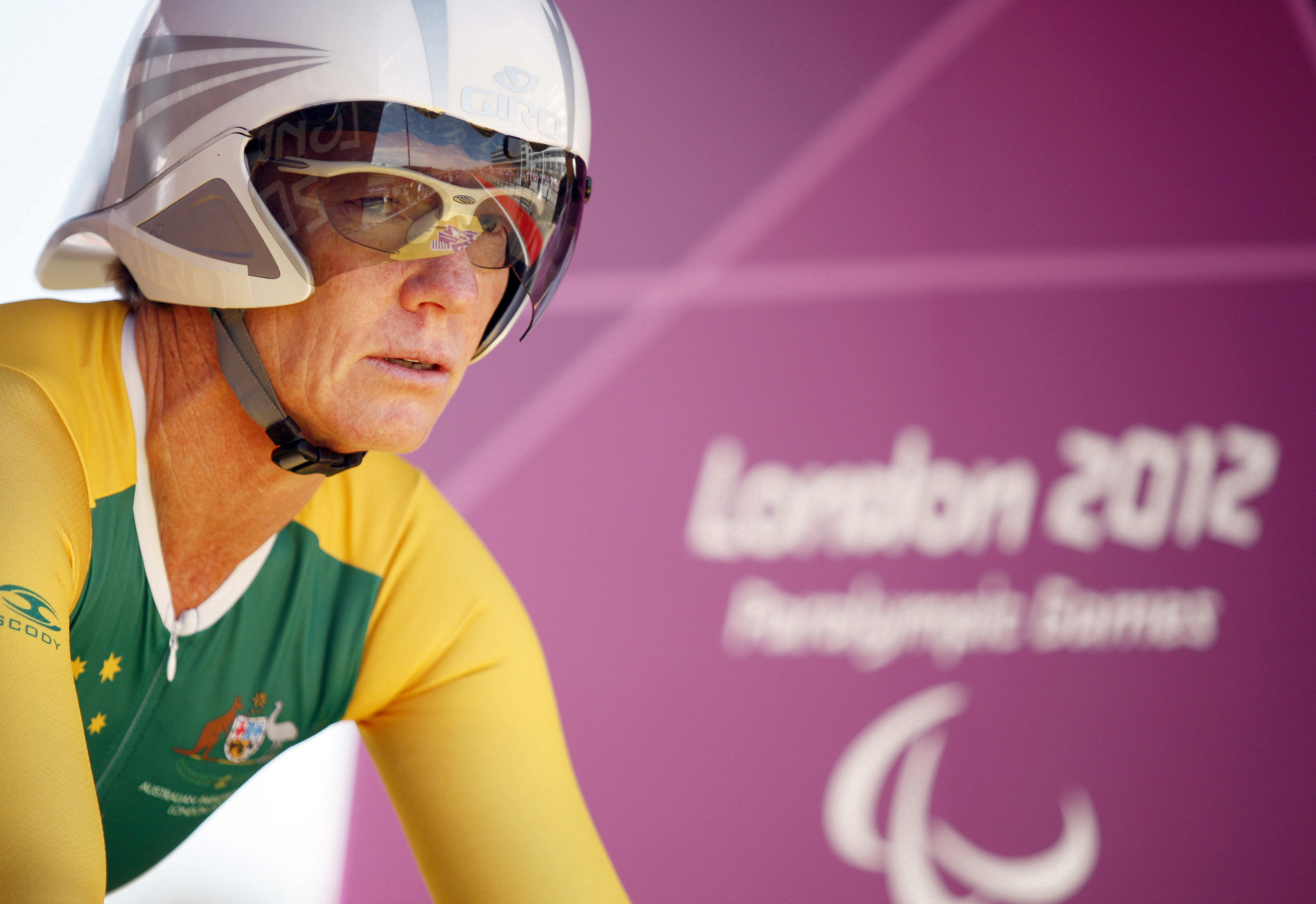 Photograph of Australian Paralympic team member Sue Powell at the 2012 Summer Paralympic Games in London